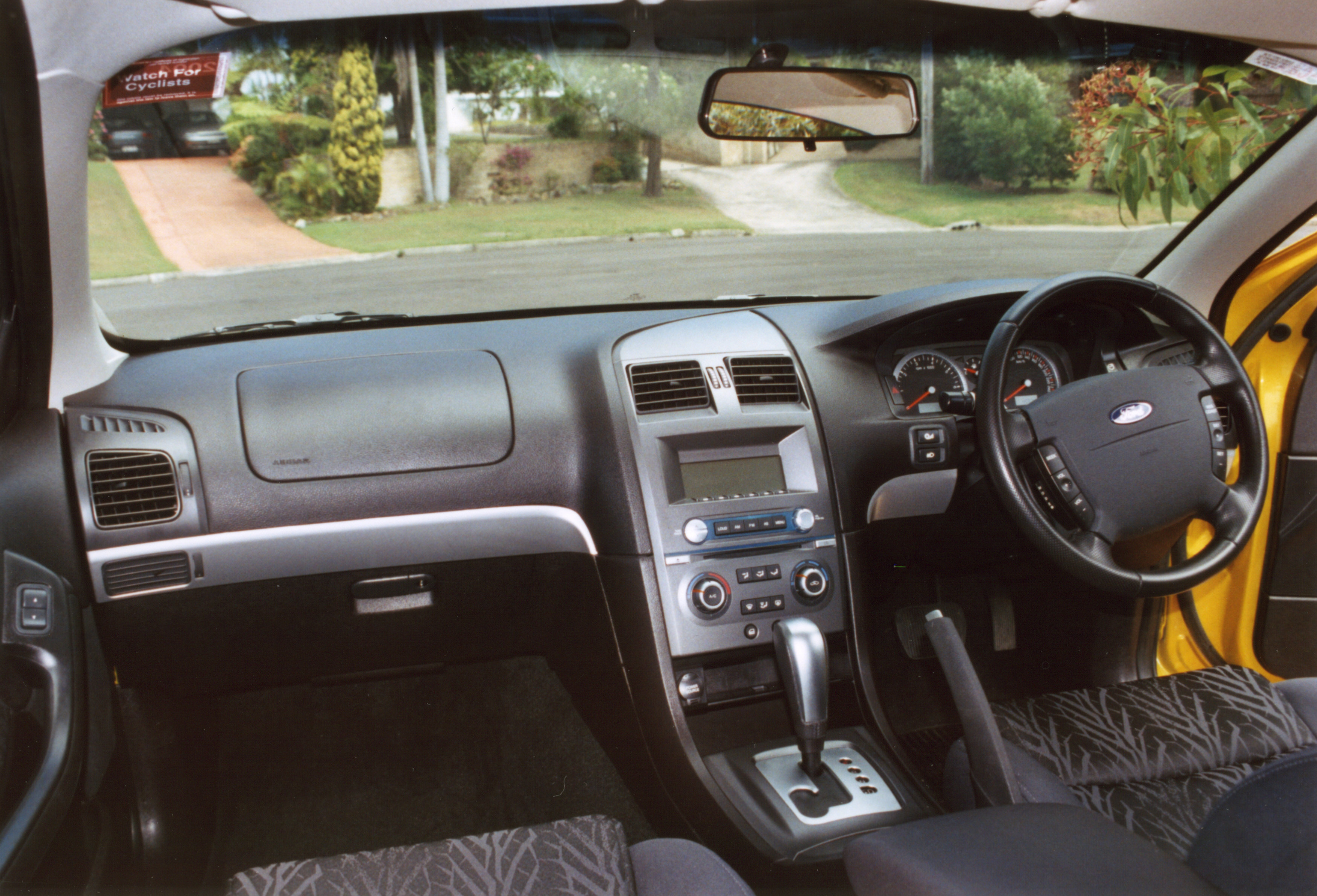 This image is a scan of a 35mm print taken in 2004 of my Falcon XR6 Turbo